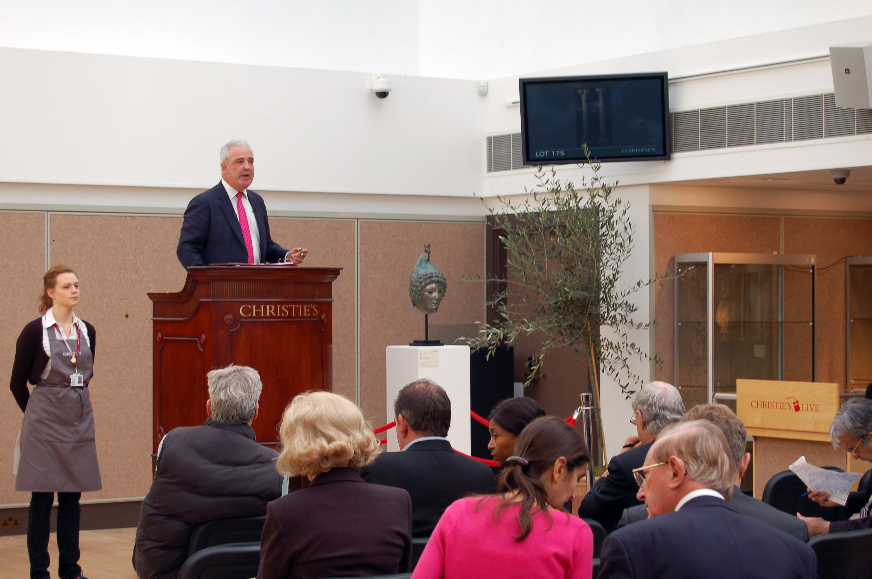 The Crosby Garrett Helmet on auction at Christie's, London, on 7 October 2010. Photo by Daniel Pett.